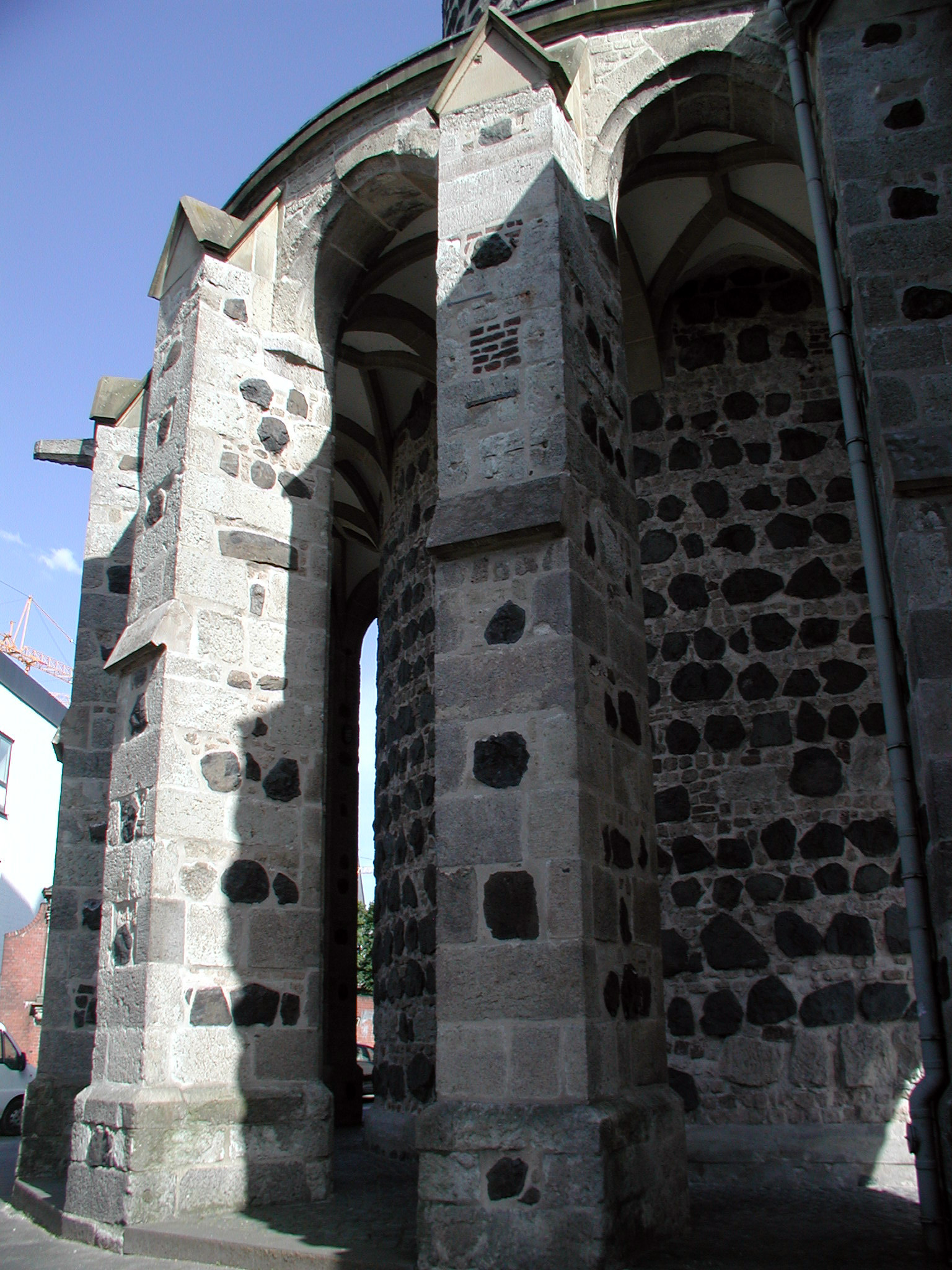 Cologne, city wall and mill "Ulrepforte" 13th century